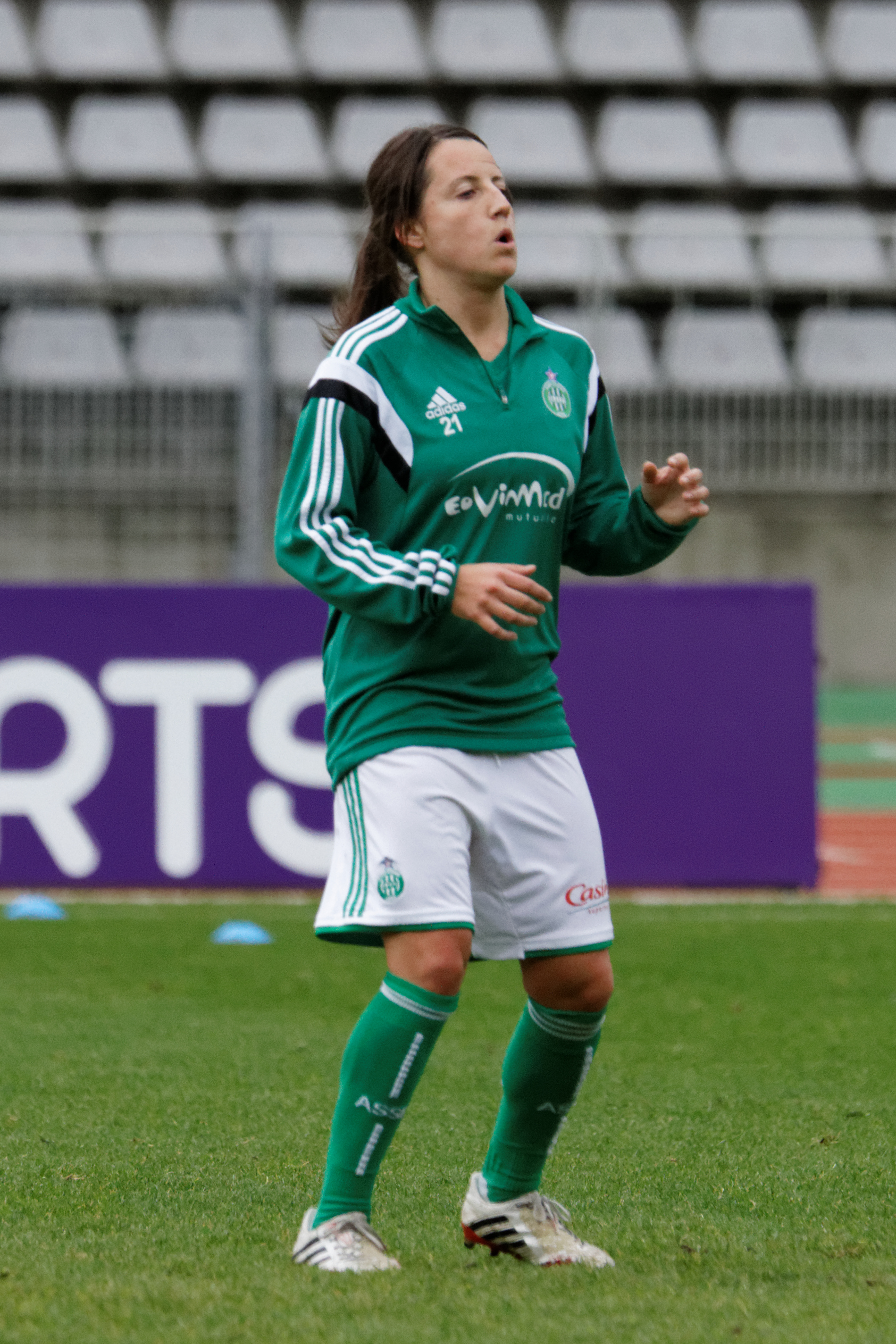 D1, PSG vs Saint-Étienne, 16 November 2014